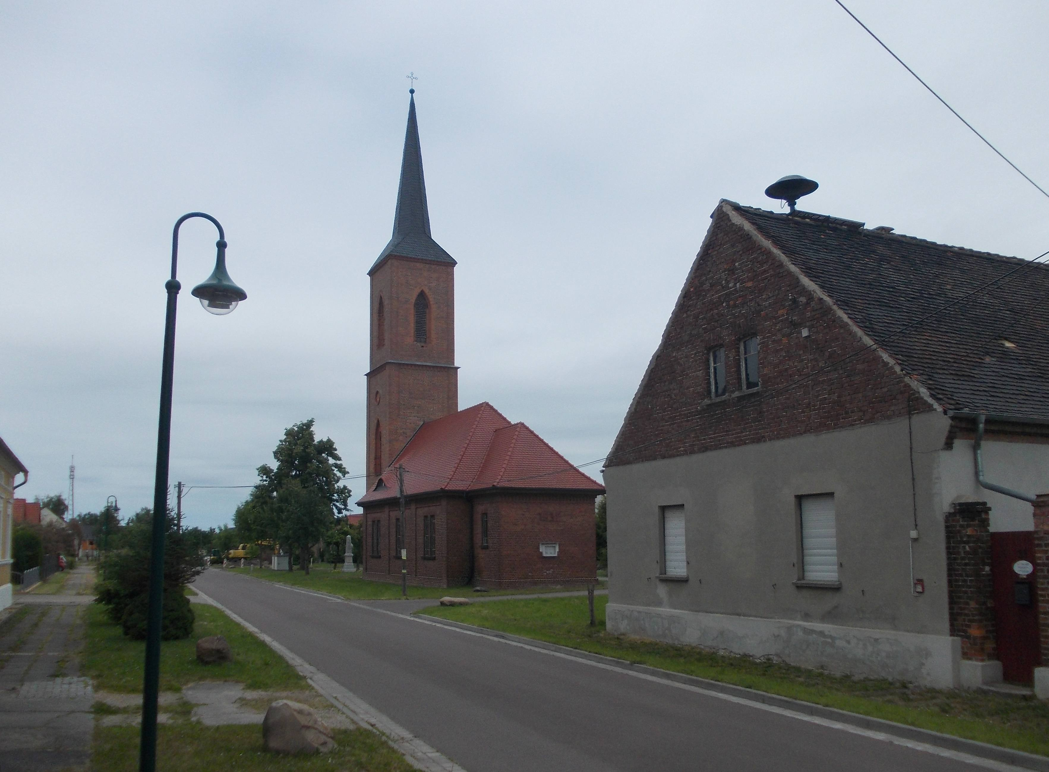 Rosefeld church (Osternienburger Land, Anhalt-Bitterfeld district, Saxony-Anhalt)